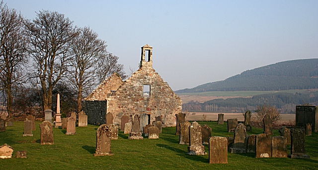 Dundurcas Kirk The parish of Dundurcas was partitioned in the 18th century; part was added to Boharm and part to Rothes.